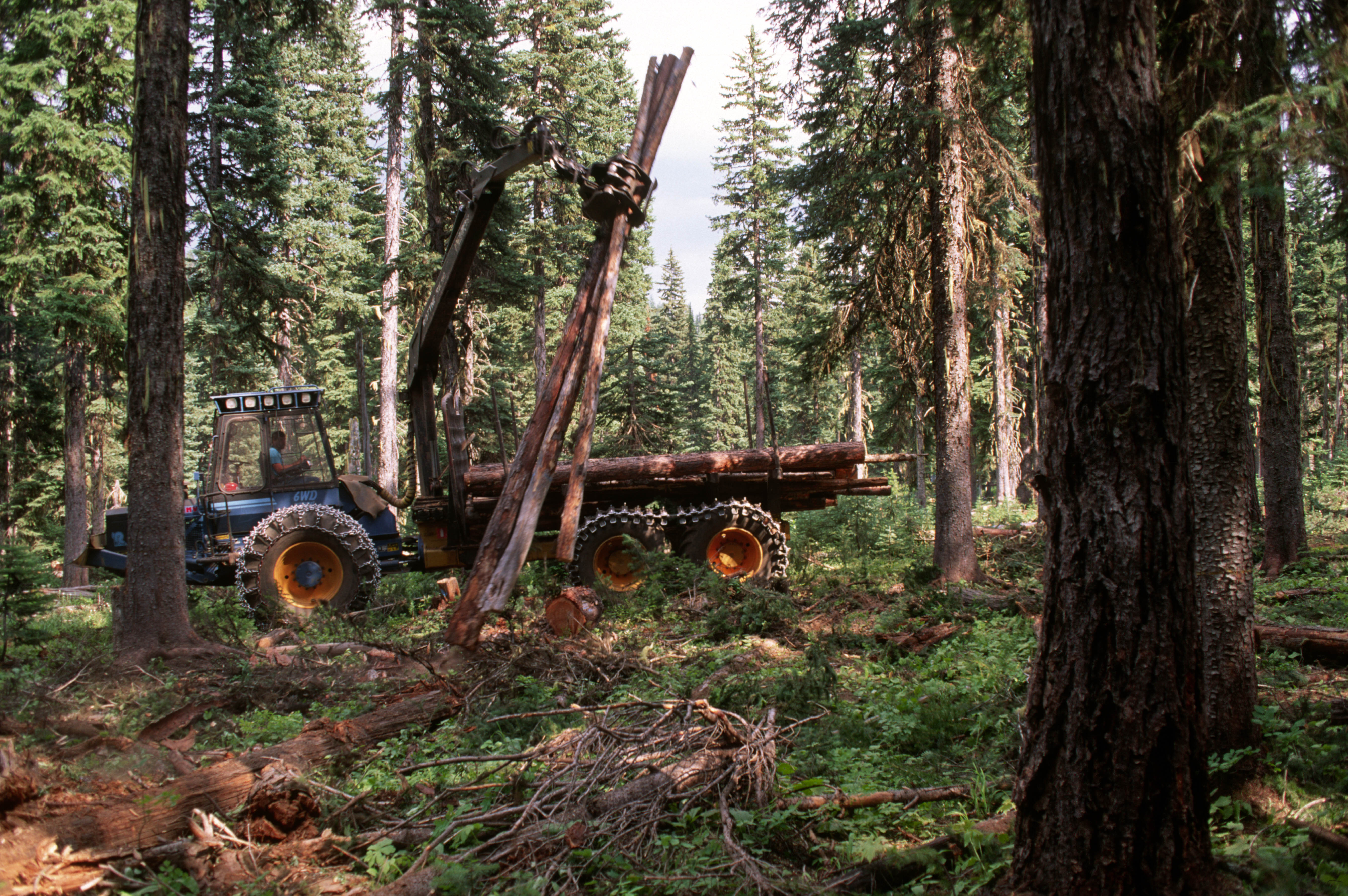 Umatilla National Forest, salvage thinning Badger TS.jpg